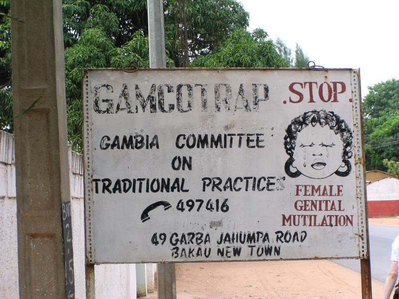 Gamcotrap Gambia committee on traditional practices, STOP female genital mutilation 49 Garba Jahumpa road, Bakau New Town